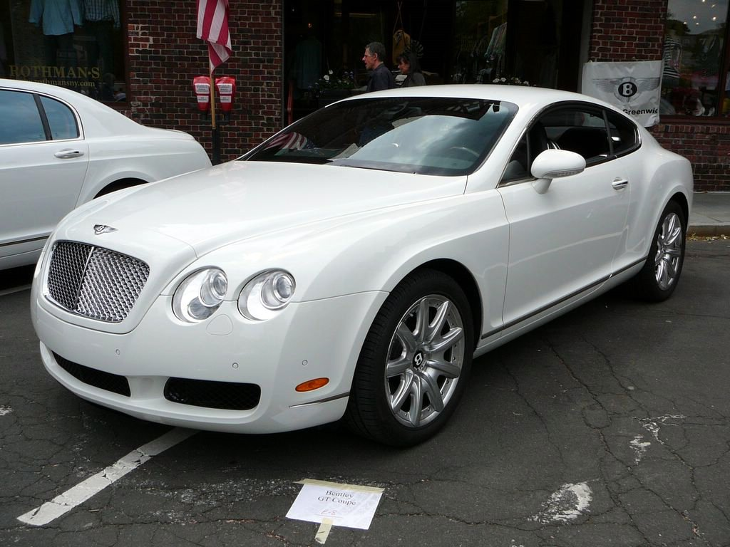 The Bentley Continental GT Coupé.